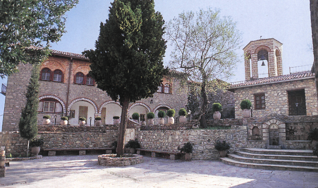 Megala Meteora